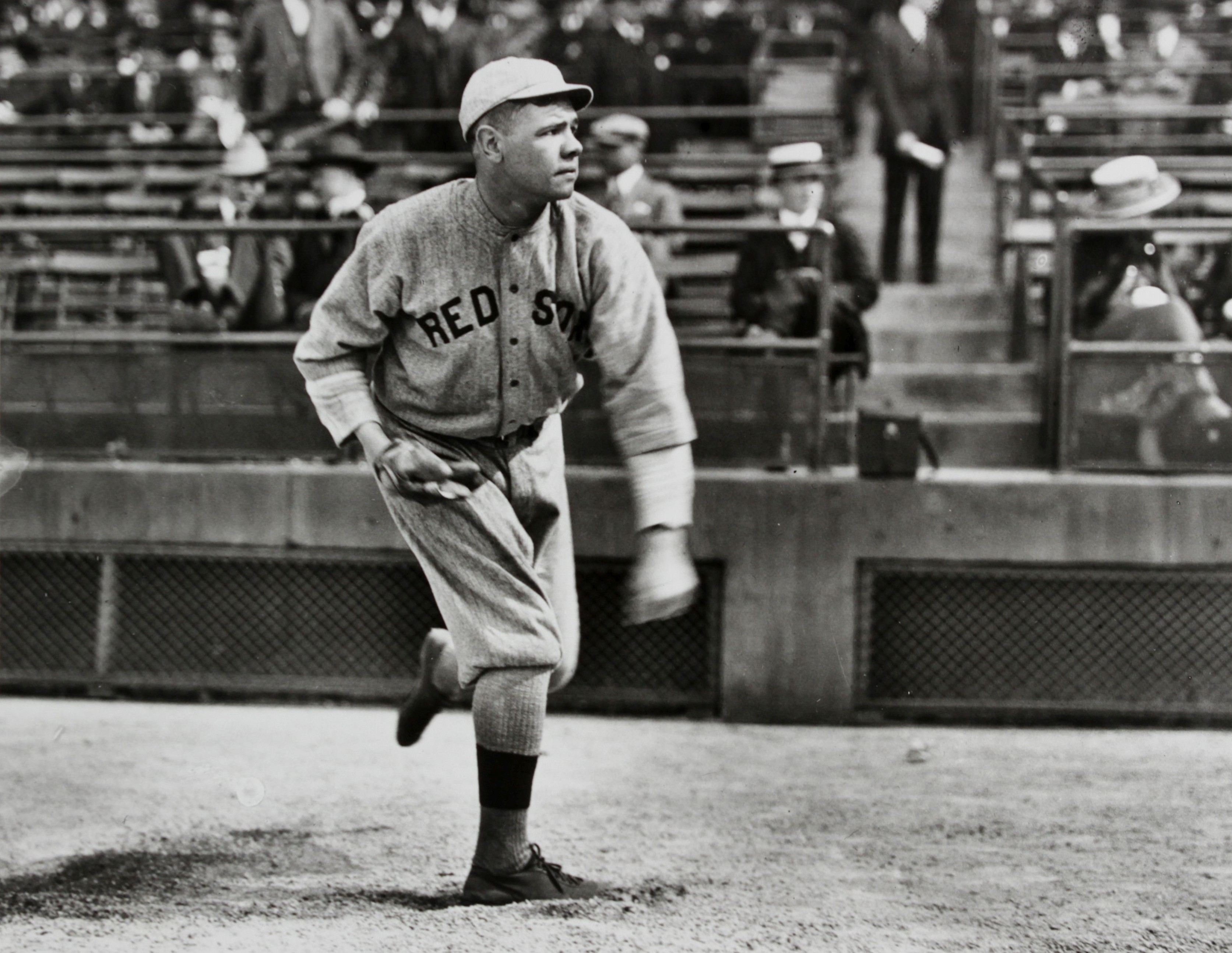 Babe Ruth pitching for Boston